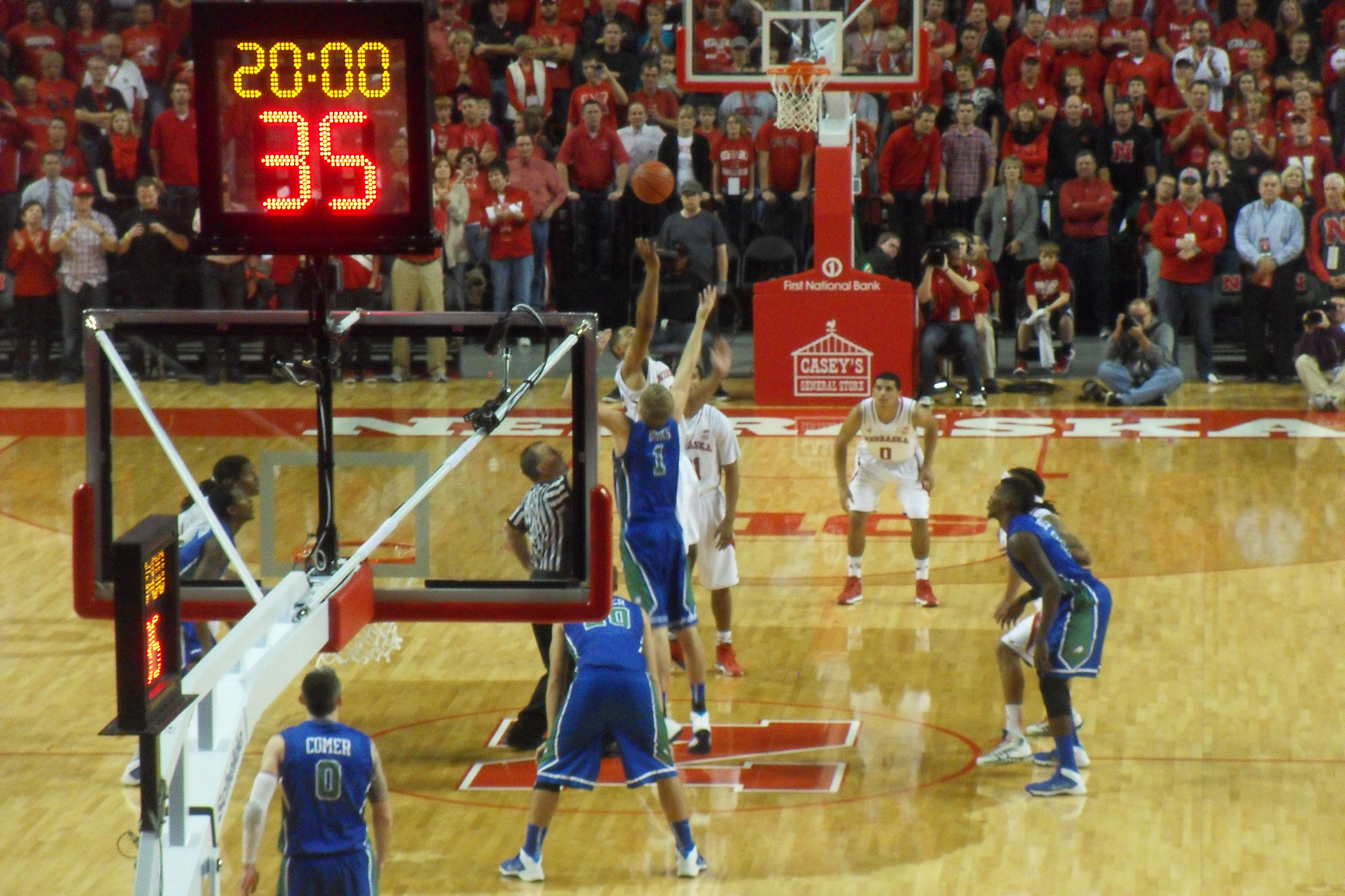 Tip off between Nebraska and Florida Gulf Coast in Pinnacle Bank Arena's first men's basketball game.